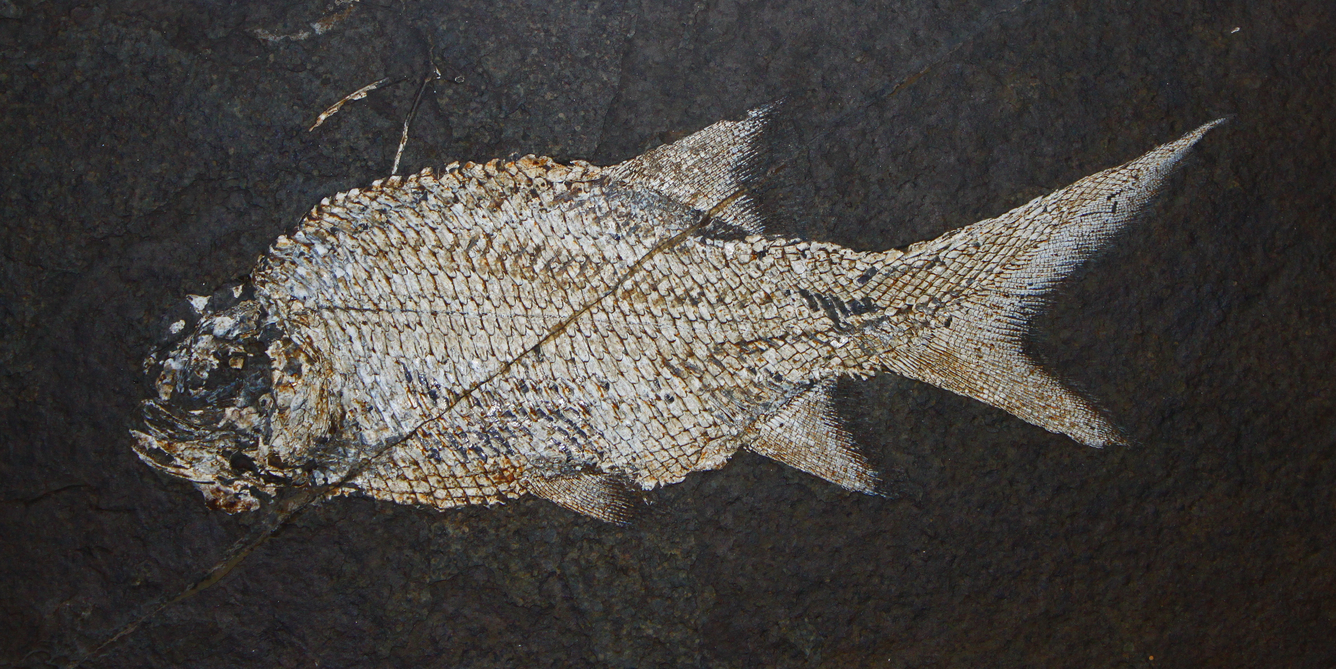 Paramblypterus spec., Paramblypteridae; Carboniferous, Rhineland-Palatinate, Germany; Staatliches Museum für Naturkunde Karlsruhe, Germany.